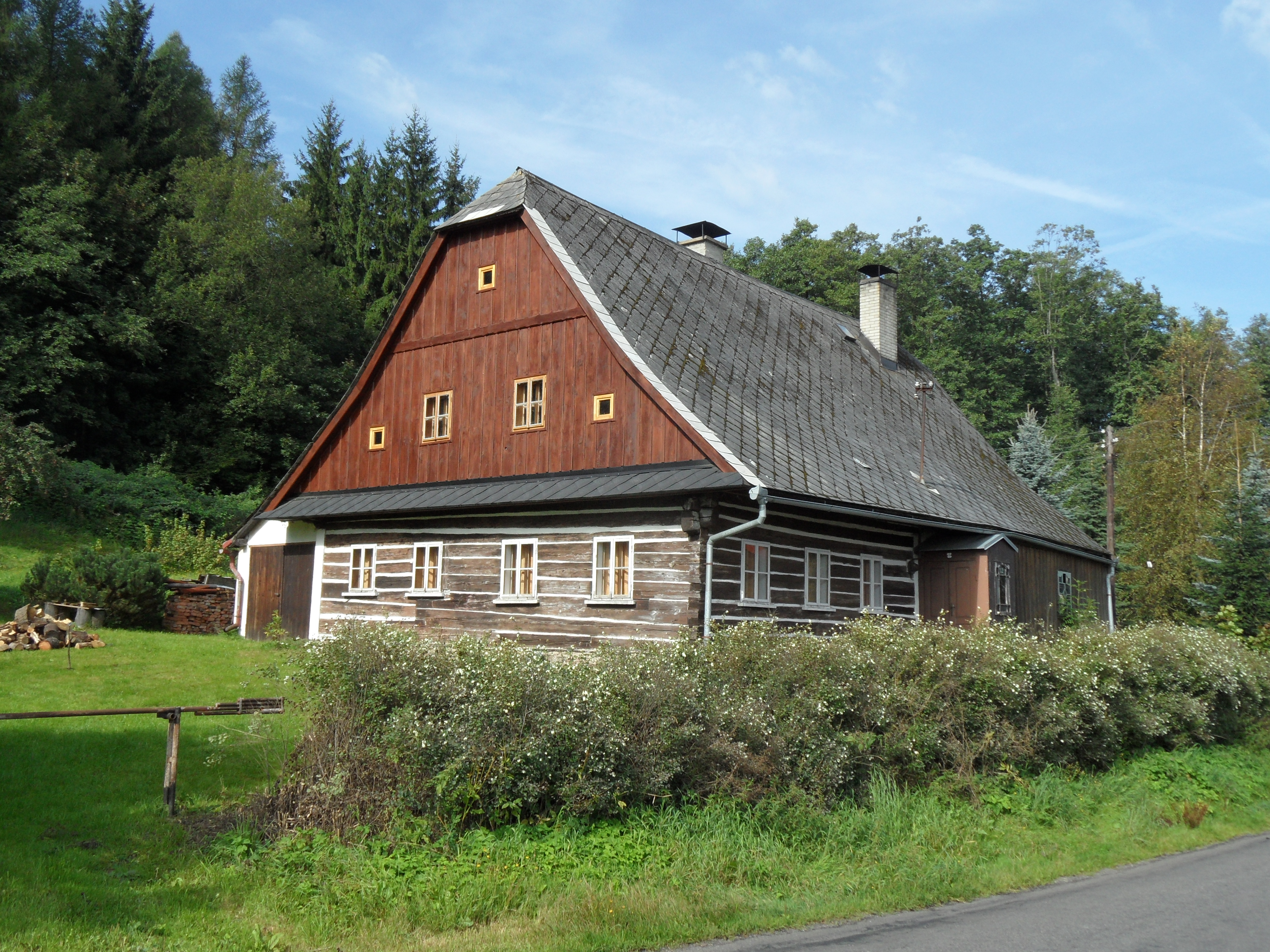 Horní Boříkovice (Králíky) A. Cottage near Road, Ústí nad Orlicí District, the Czech Republic.